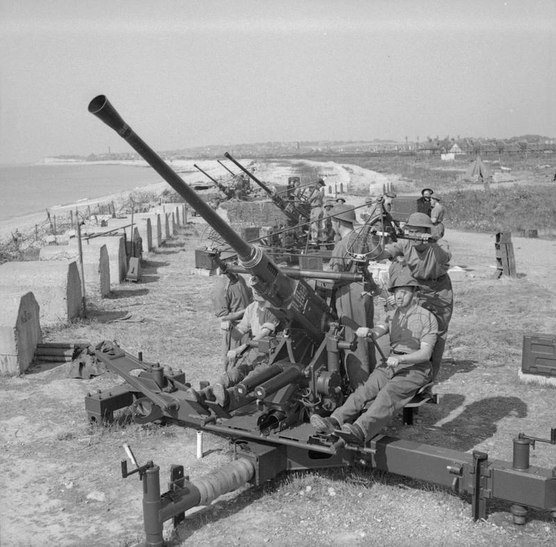 V1 Flying Bomb A Bofors gun battery fully manned, situated on the South Coast.